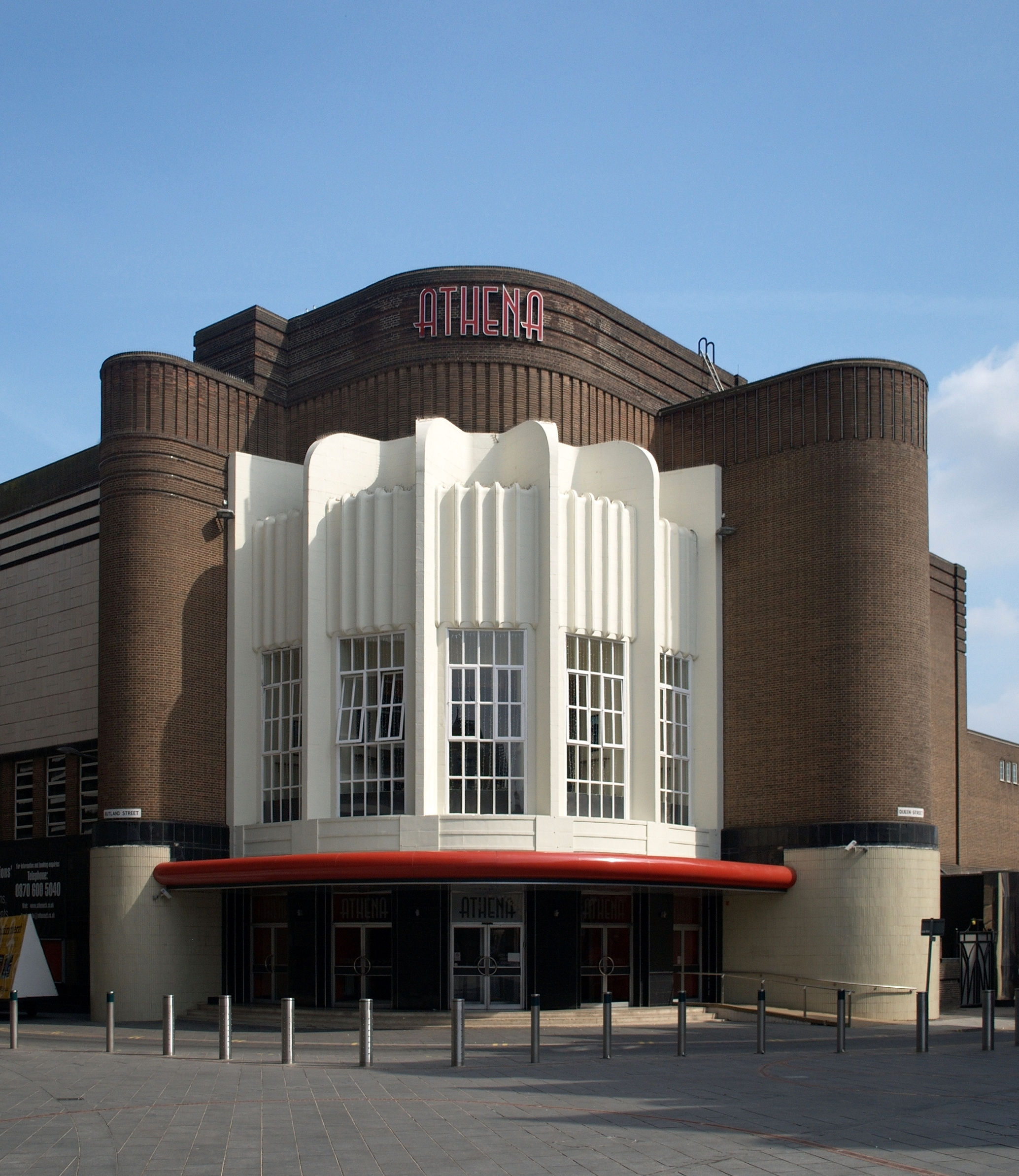 Leicester Athena, the former Odeon Cinema in Leicester, England.